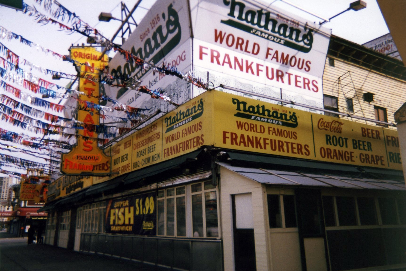 Nathan's Famous original hot dog stand on Coney Island, New York.